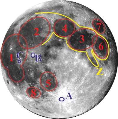 1/Oceanus Procellarum 2/Mare Imbrium 3/Mare Tranquillitatis 4/Mare Serenitatis 5/Mare Nubium 6/Mare Fecunditatis 7/Mare Crisium 8/Mare Humorum Z/Mare Nectaris A/Tycho B/ Copernicus C/Kepler